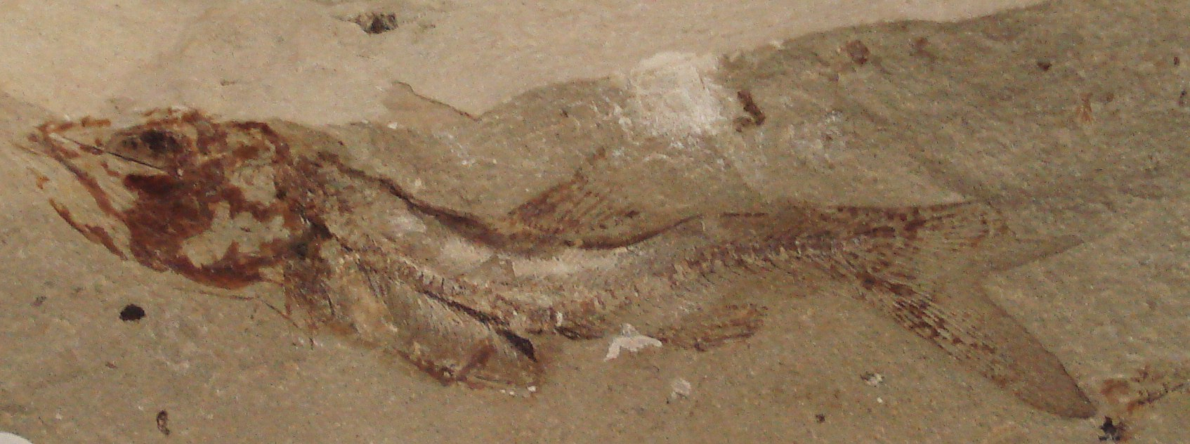 Fossil of Davichthys garneri, an extinct fish